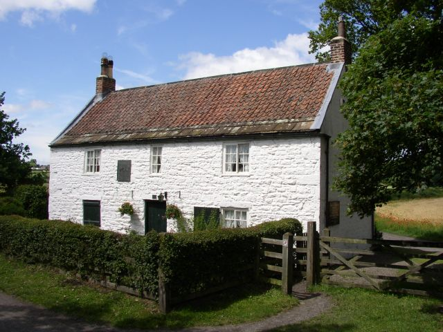 George Stephenson's cottage. This small stone cottage, built around 1750, has earned a place in history by being the birthplace of railway pioneer George Stephenson. Stephenson was born here in 1781, and went on to make his name at nearby Wylam colliery. The cottage was once home to four pitmen's families, and the room in which Stephenson was born, and in which the whole family lived can be seen today, furnished in period style.